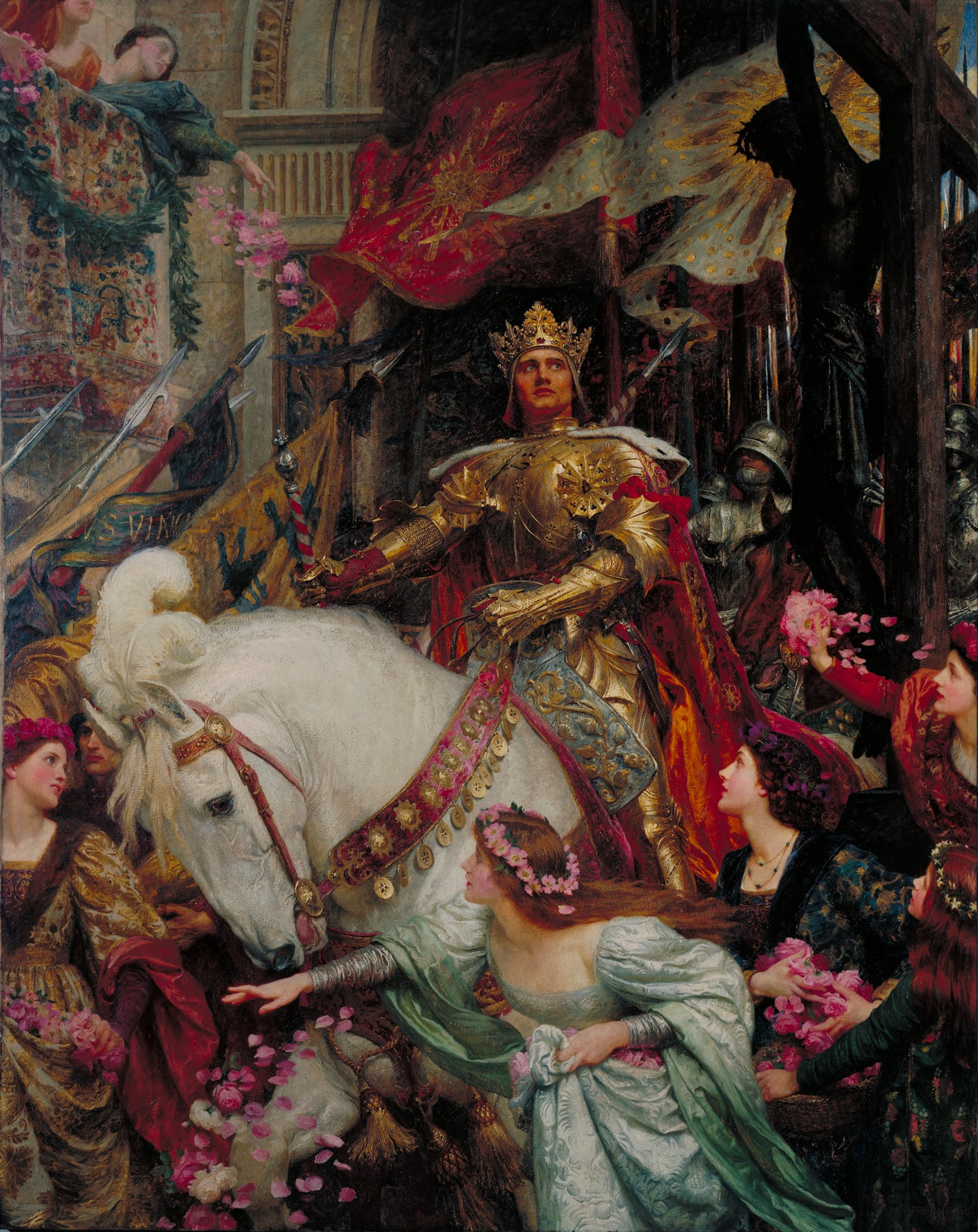 An unidentified medieval prince returns to jubilation but stares at a crucifix unnoticed by the celebrants. Celebrated at its showing and purchased for the Crown for £2000. (More detail from the Tate)